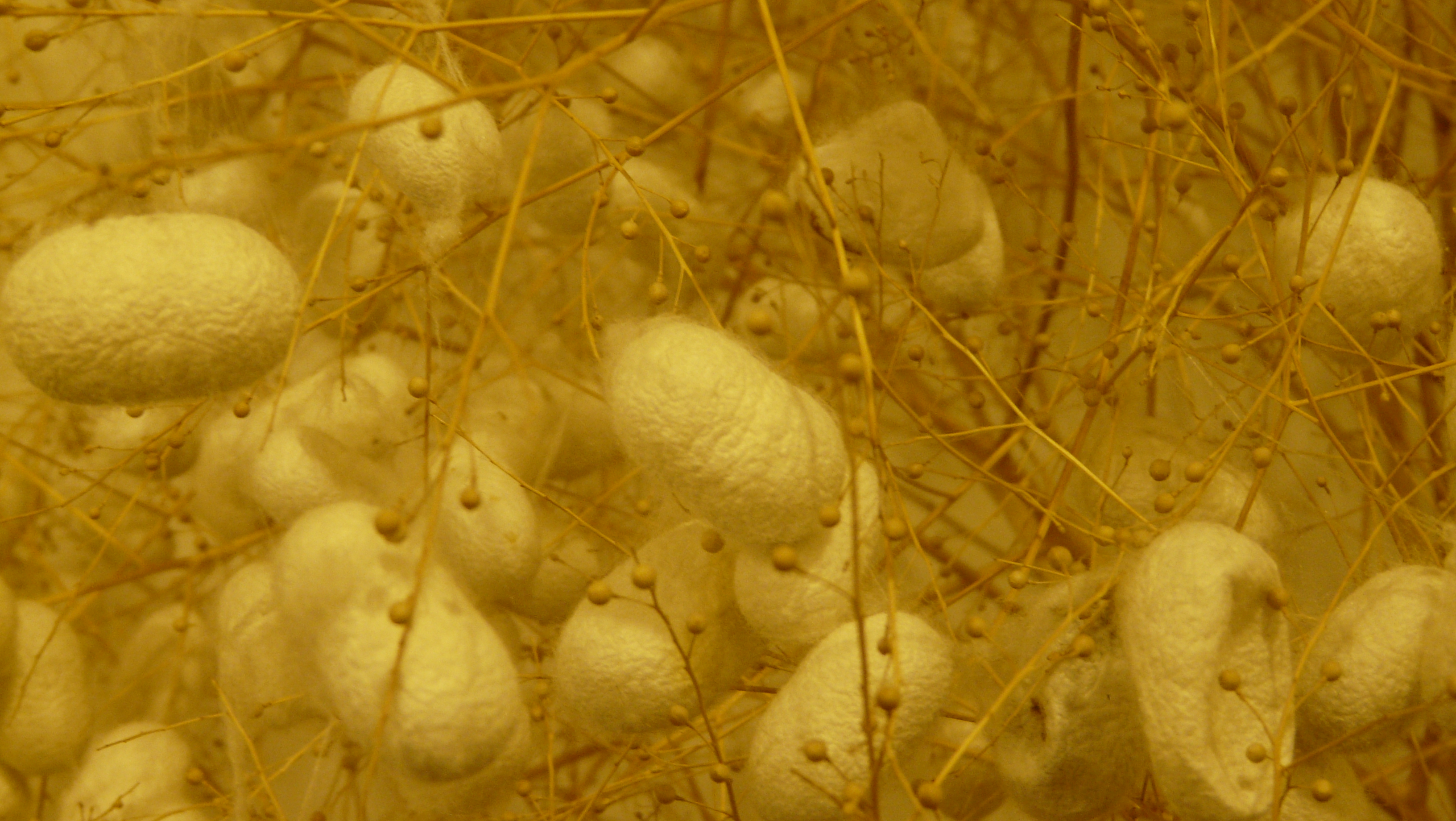 Silk cocoon